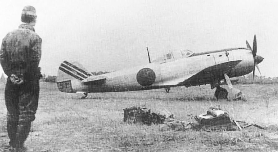 Nakajima Ki-84 Type 4 Hayate (2nd additional prototype #491) of the 2nd squadron, the Army 73rd squadron (Flighter Regiment).